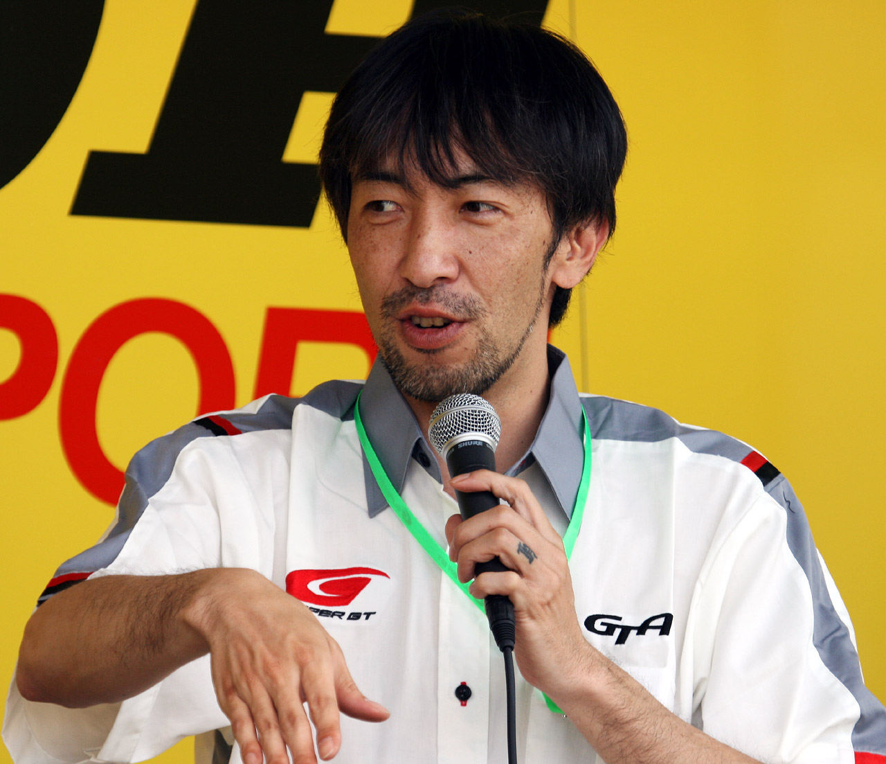 Super GT 2008 Rd.3: Naoki Hattori, as a commentator for the race.